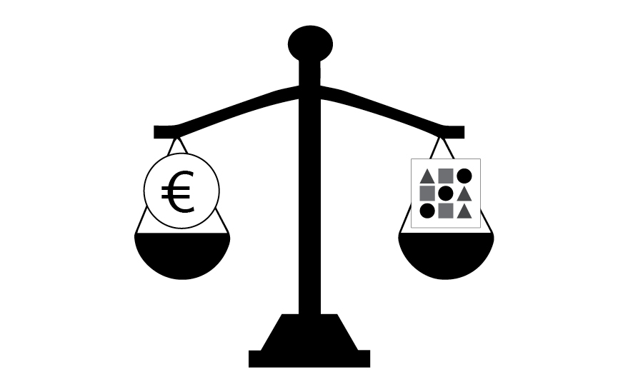 The right balance for a price value-certainty